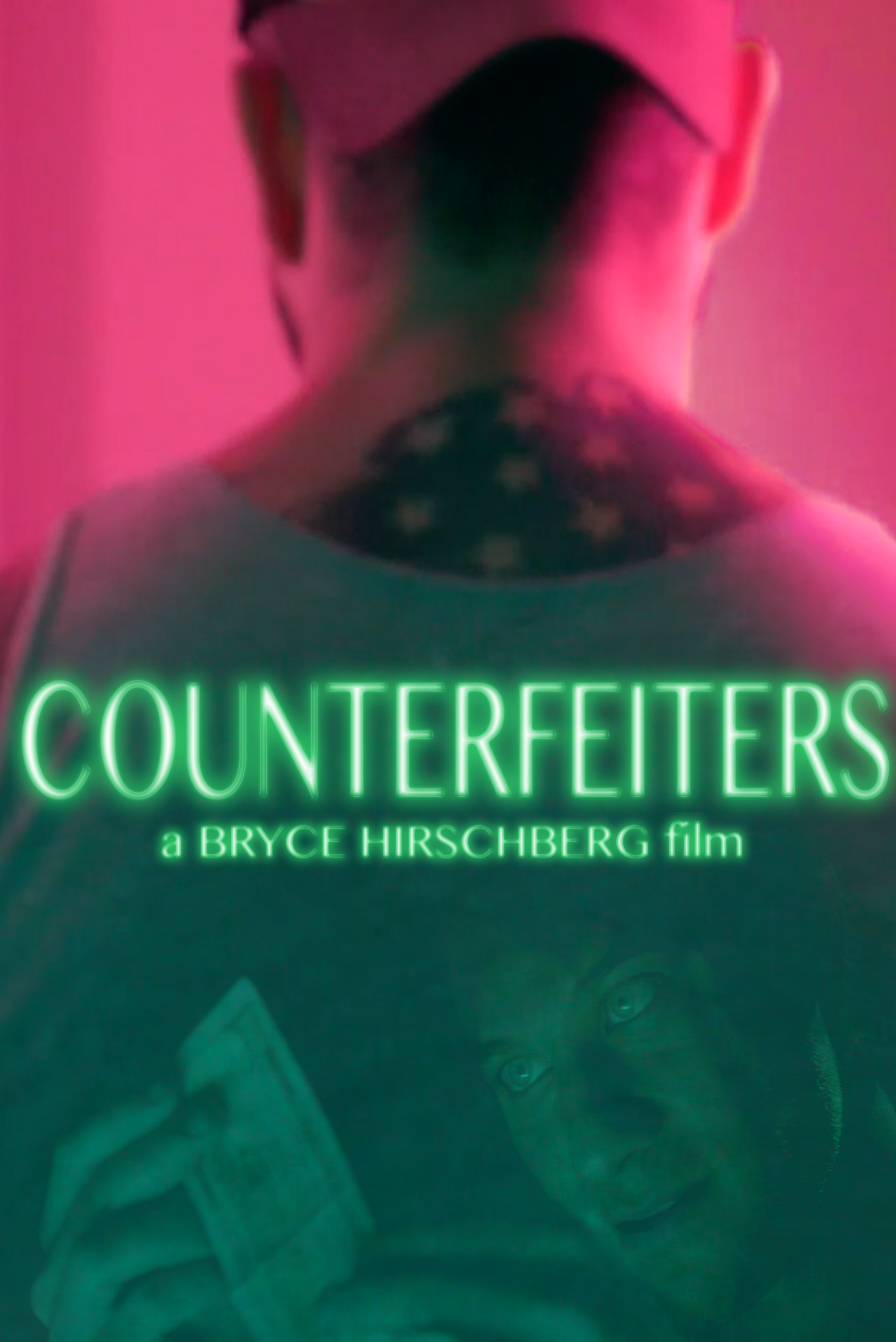 Movie poster created by (me) Bryce Hirschberg for use on iTunes.